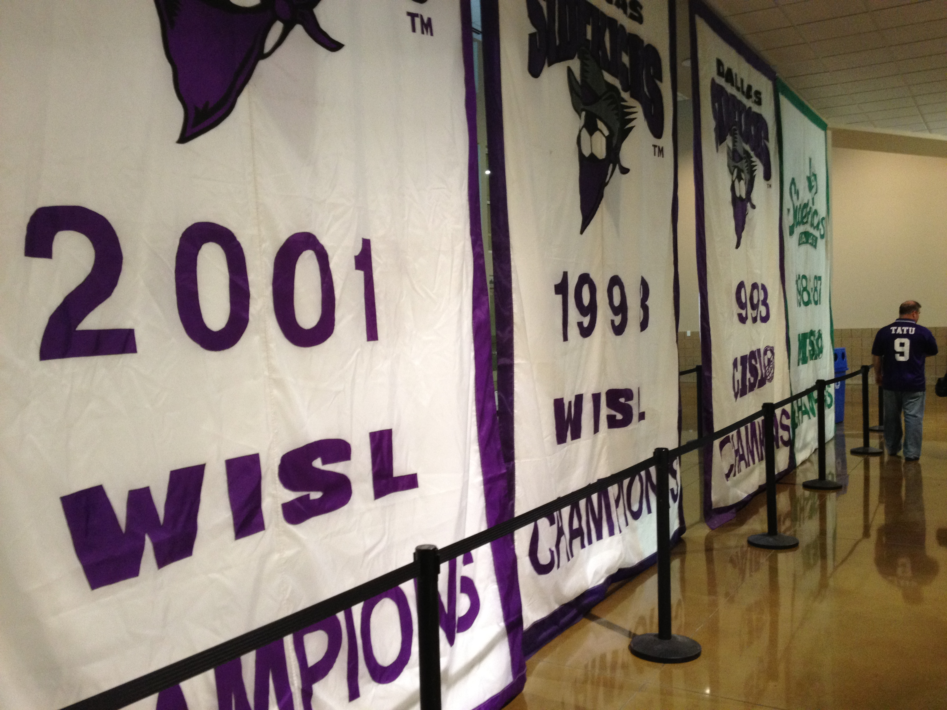 The four championship banners of the original Dallas Sidekicks indoor soccer franchise.